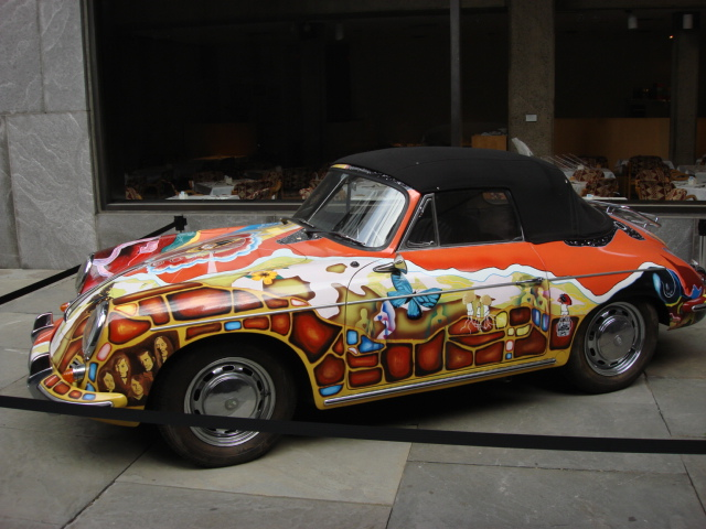 Janis Joplin's Porsche 356 in Summer of Love - Art of the Psychedelic Era (Whitney Museum, New York). The car is now in the Rock and Roll Hall of Fame and Museum in Cleveland, Ohio.Janis Joplin's Porsche in Summer of Love - Art of the Psychedelic Era (Whitney Museum - New York)